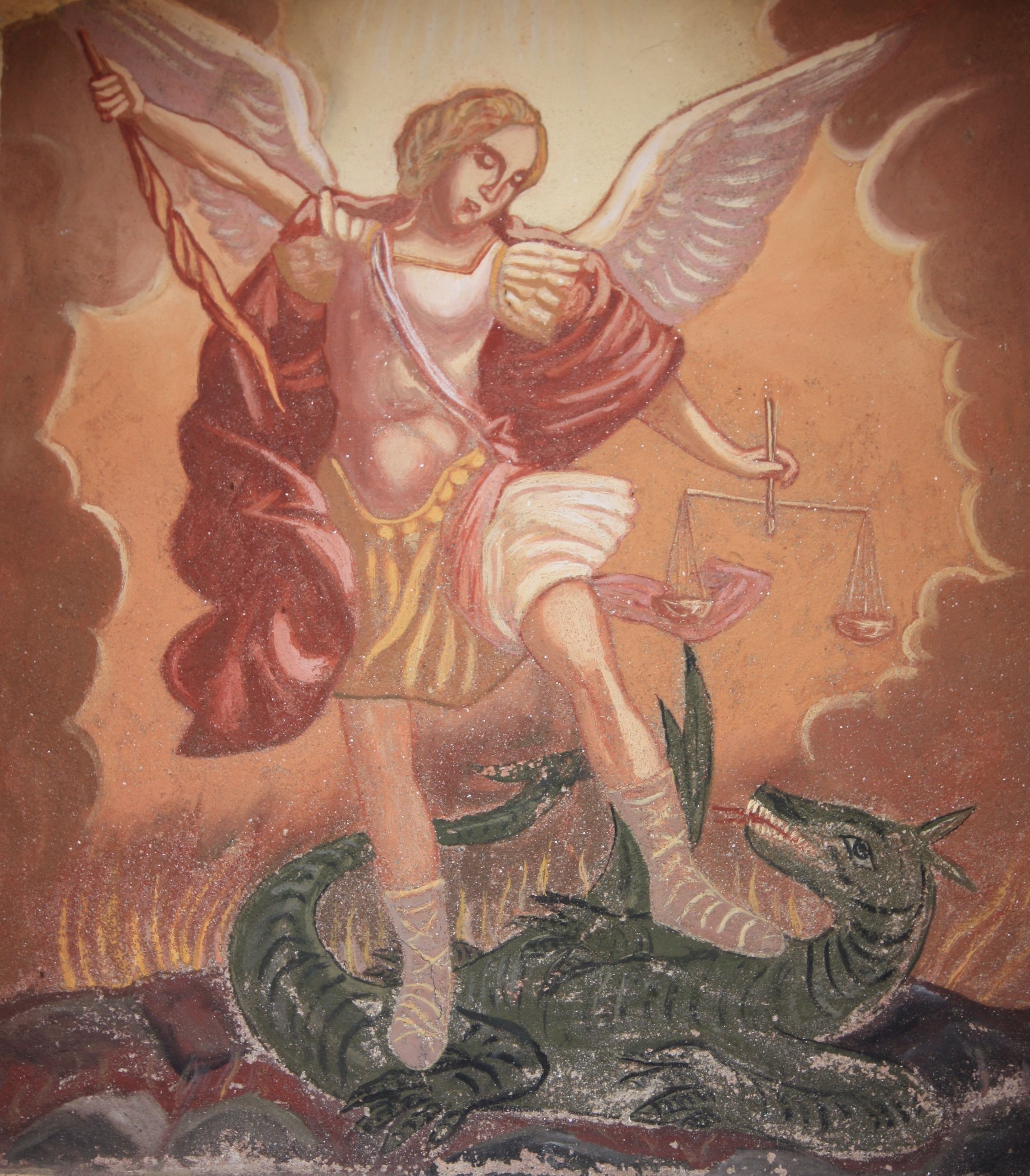 Painting of Archangel Michael on a Wayside shrine in Hof (Dvor) in the community of Feistritz ob Bleiburg, Carinthia